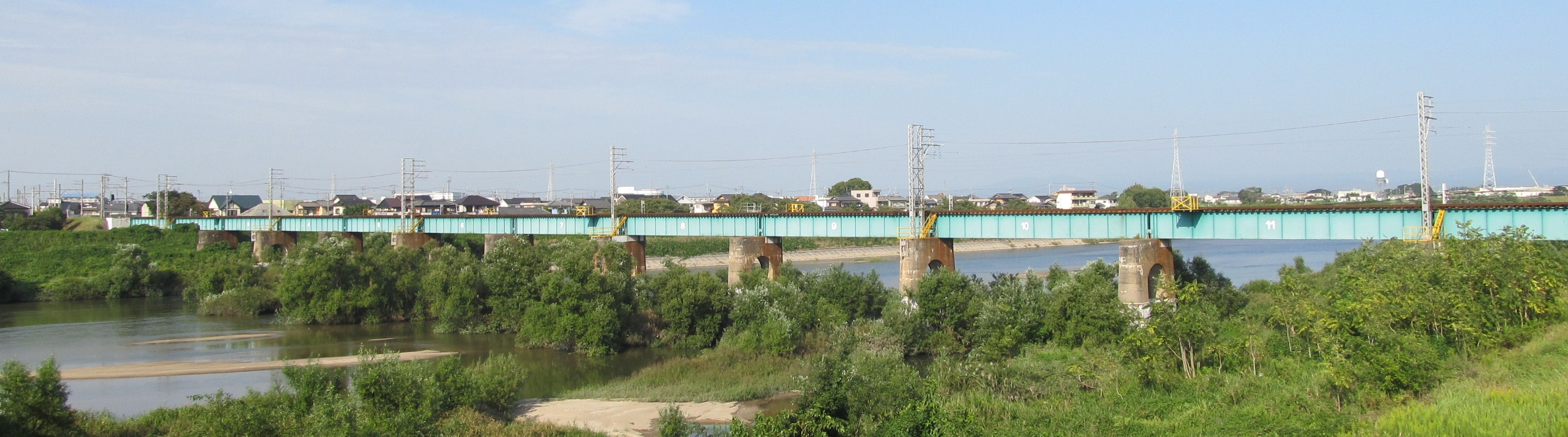 Yonezu Bridge (Nagoya Railroad Nishio Line: Between Yonezu and Sakuramachi-mae)